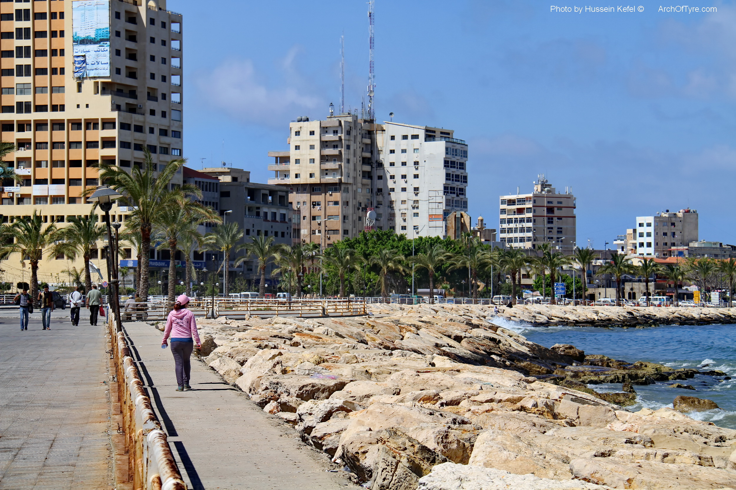 Tyre is one of the oldest continually inhabited cities in the world. It is believed to have been occupied first between 8800 and 7000 BC, and today it is believed to be the oldest continuously-inhabited city in the world. According to legend, purple dye was invented in Tyre. This great Phoenician city ruled the seas and founded prosperous colonies such as Cadiz and Carthage, but its historical role declined at the end of the Crusades. There are important archaeological remains, mainly from Roman times.